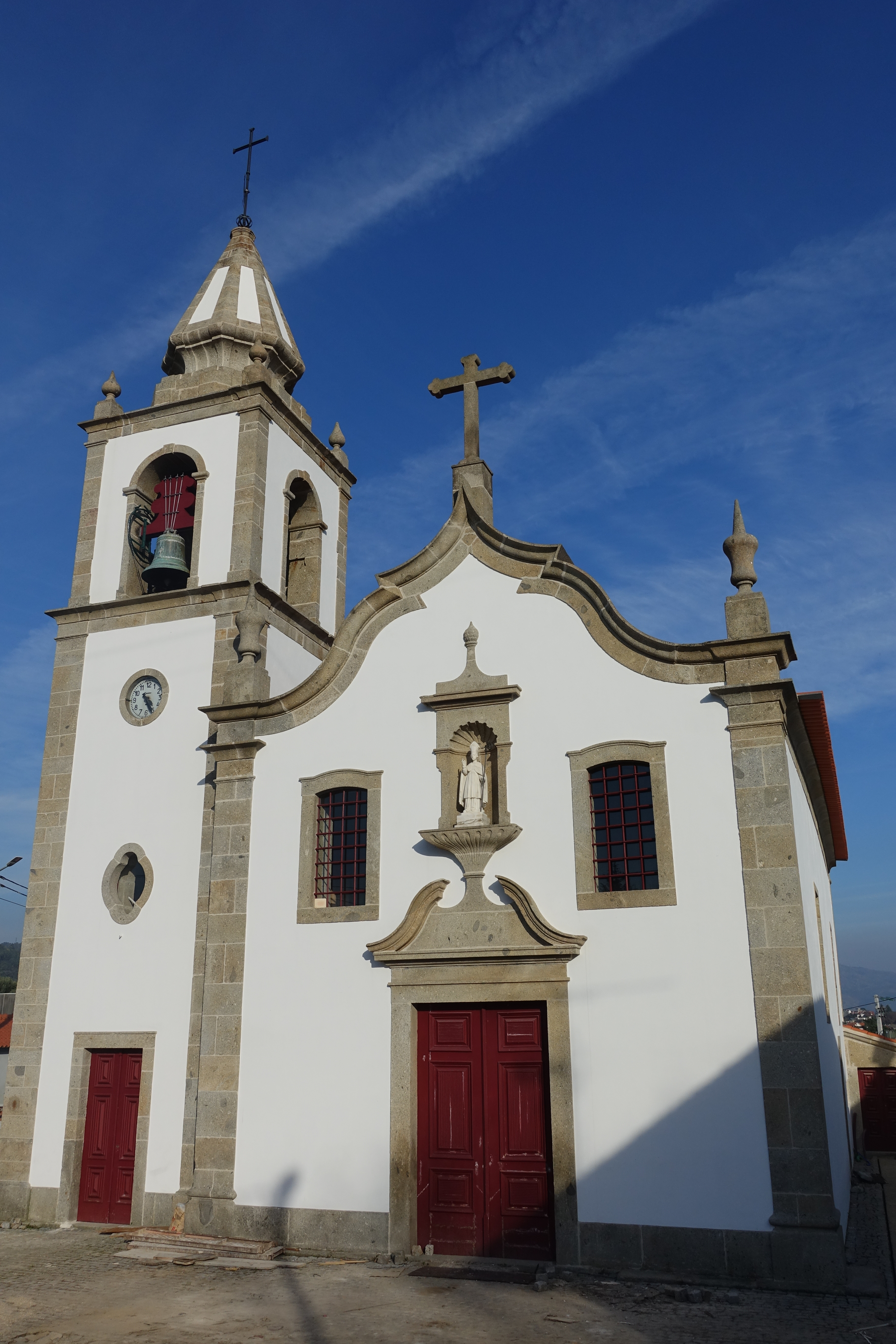 Carrazedo Church in Amares, Portugal.